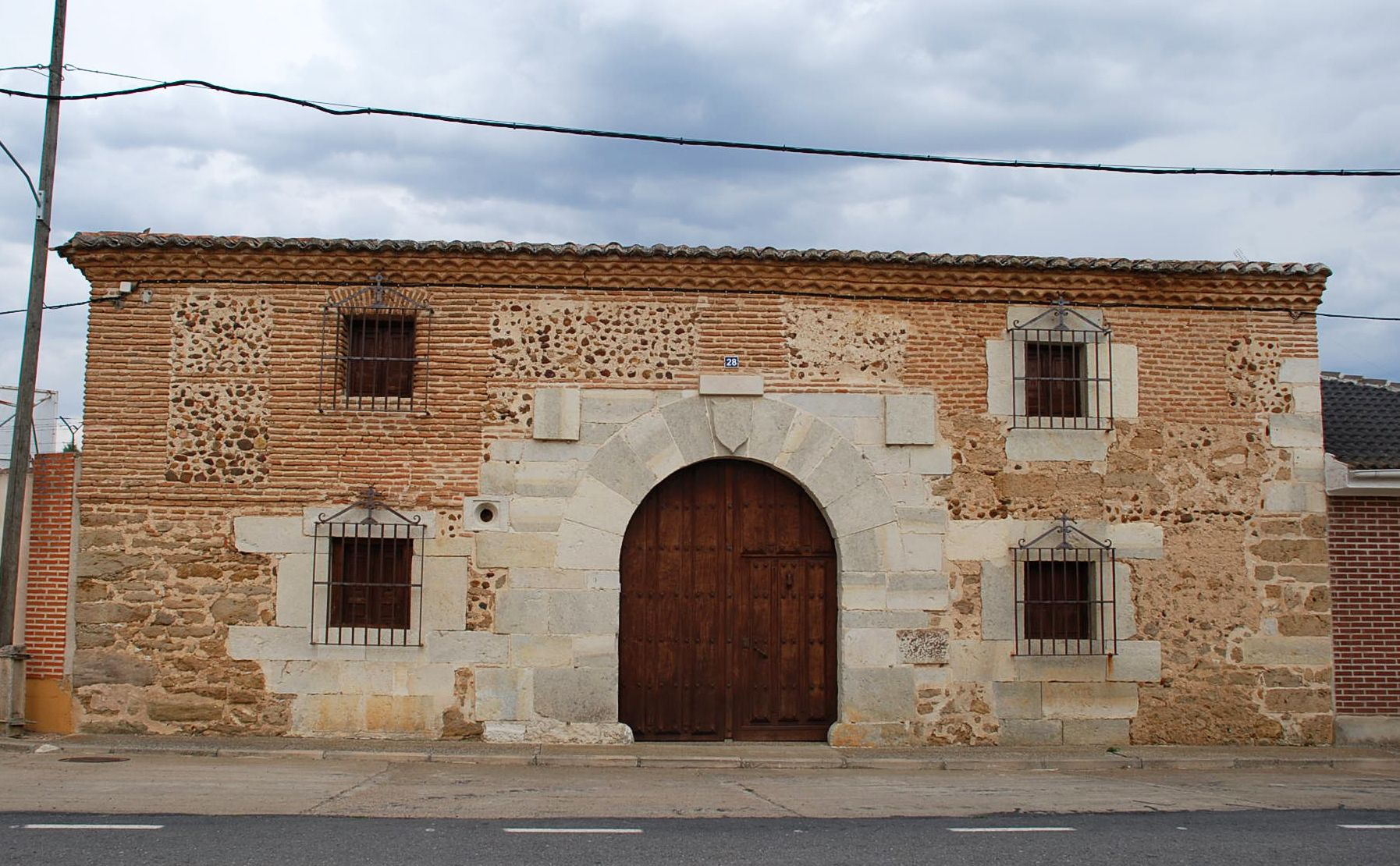 Manor house in Arenillas de Nuño Pérez, (Palencia, Castile and León). Popular tradition attributes the lot on which builds this construction of the 16th-17th century to count Nuño Pérez de Lara, which, reportedly, had a few hives (arniellas) in this town that was tenente. Hence the name: Arenillas de Nuño Pérez.This House is also known as "House of Lions" by having the image of two lions at its entrance until the beginning of the 20th century. His whereabouts are currently unknown.